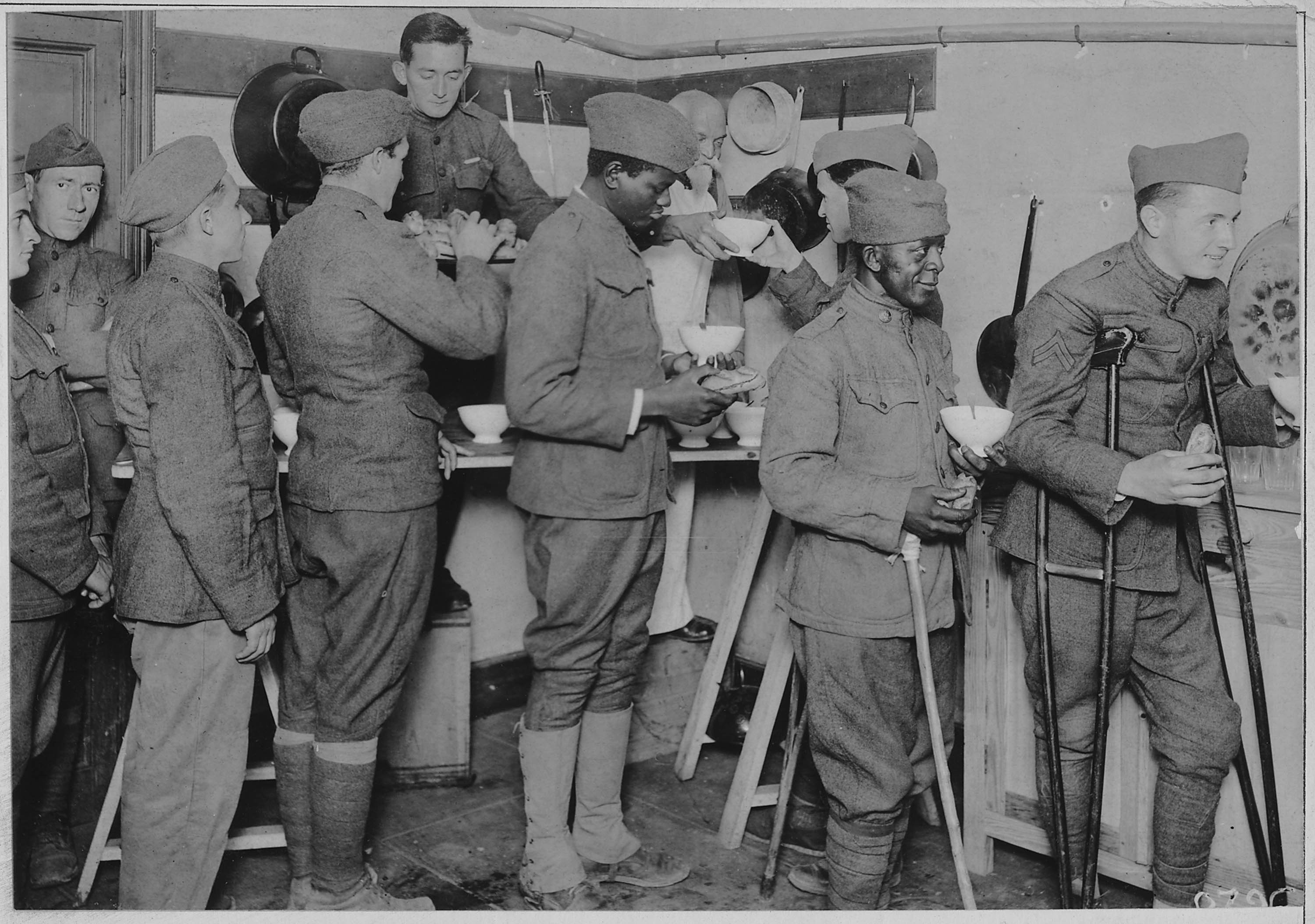 American soldiers getting their bowls of chocolate and rolls in the American Red Cross canteen at Toulouse ,France